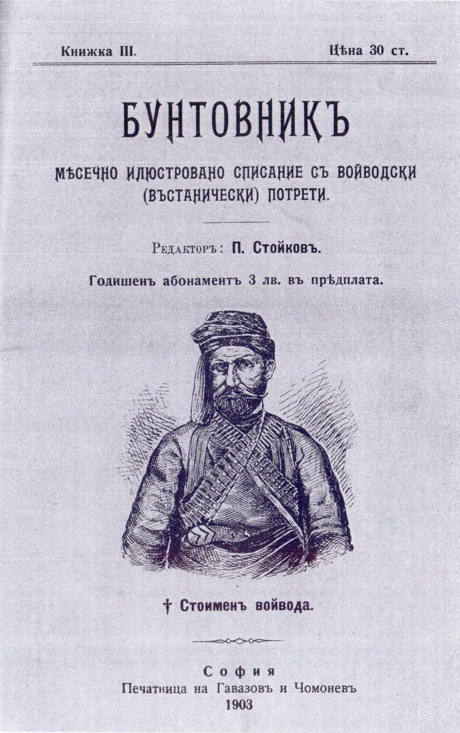 Buntovnik 3 - 1903